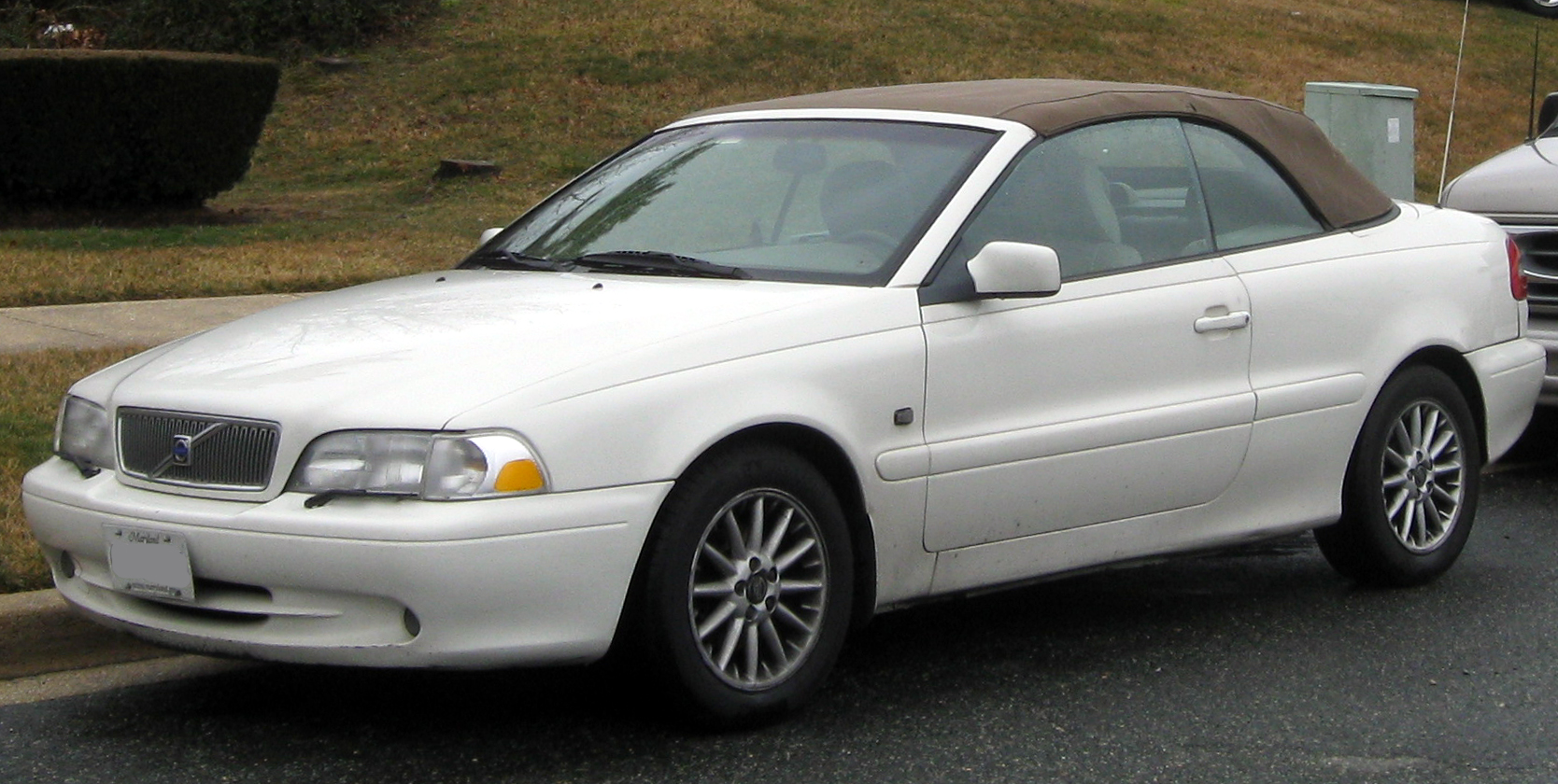 Volvo C70 photographed in Silver Spring, Maryland, USA.